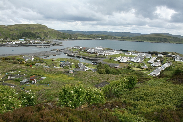 Easdale. Seen from the islands only remaining high ground at 124 feet. Ellenabeich to the left.